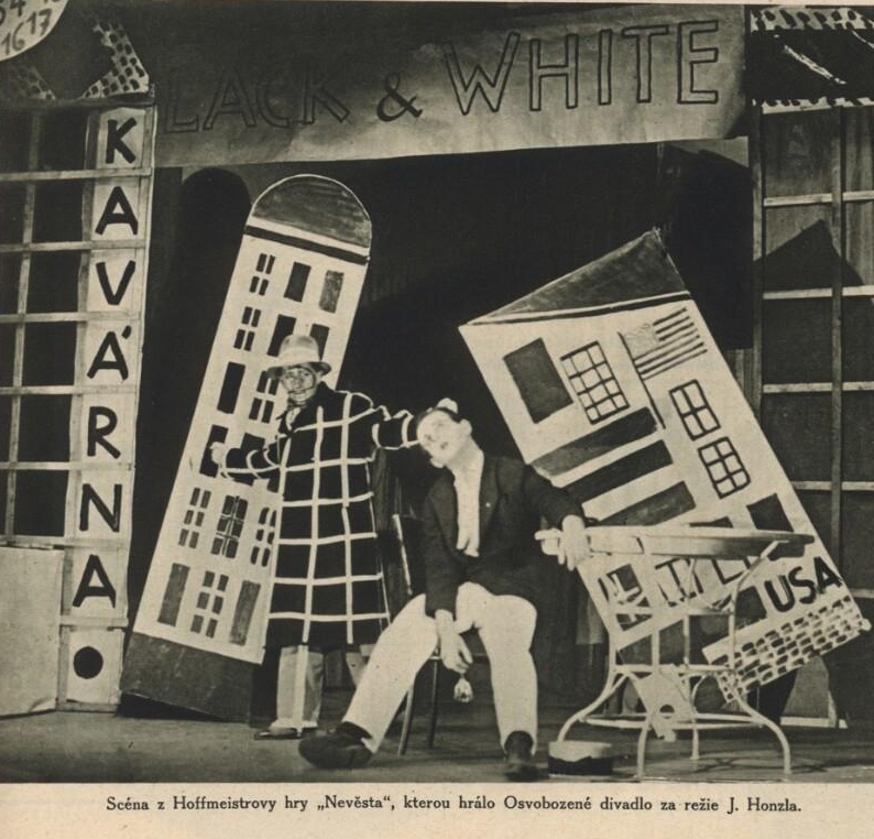 Adolf Hoffmeister: Nevěsta (Osvobozené divadlo, Prague, 1927)